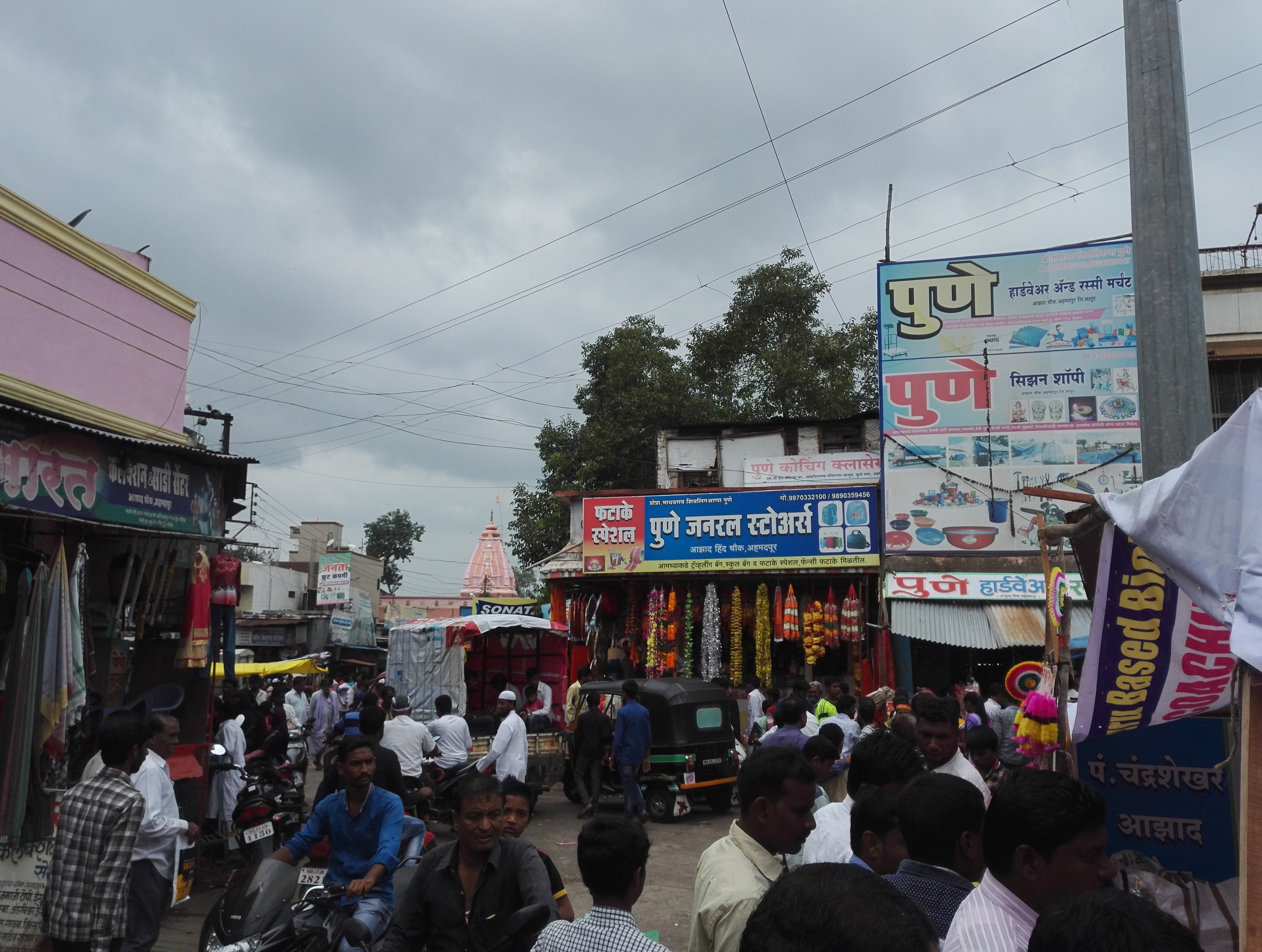 Aazad Chowk Ahmedpur Latur